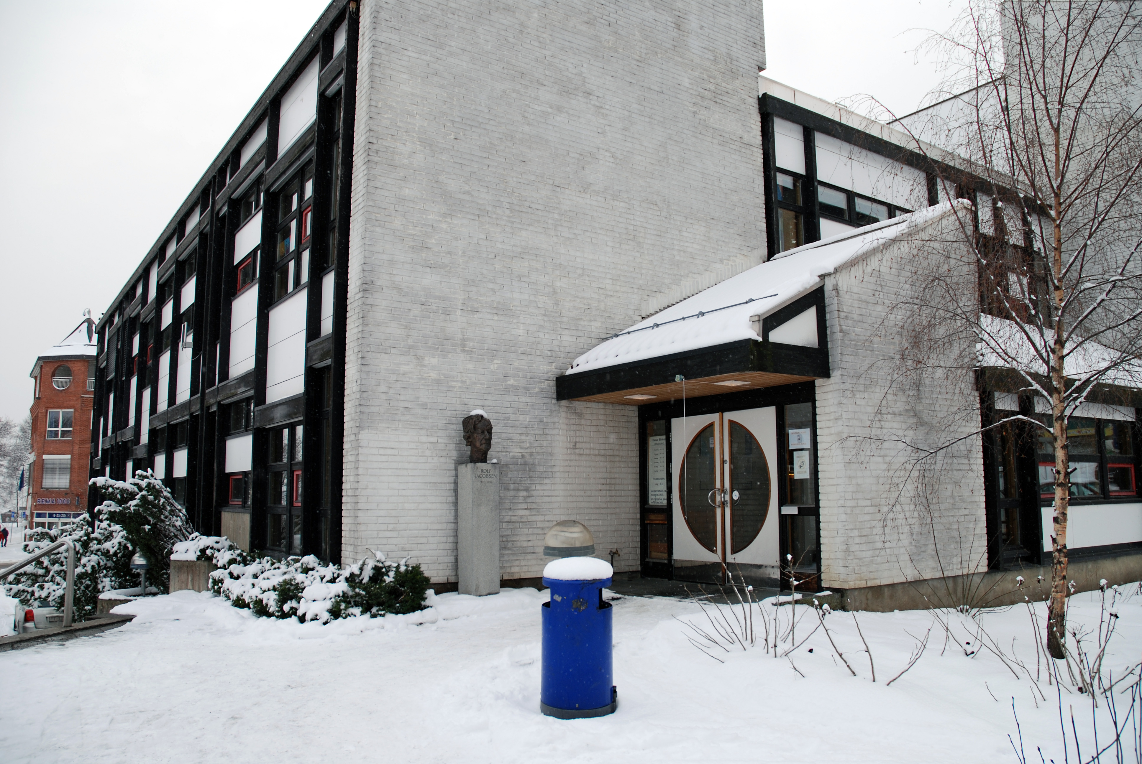 Entrance of Hamar library in Hamar, Hedmark, Norway. The statue of poet Rolf Jacobsen is made by sculptor Nils Aas.